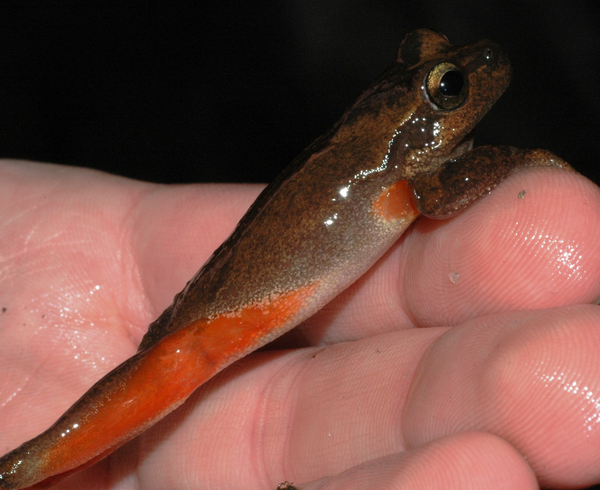 A Littlejohn's Tree Frog (Litoria littlejohni) showing orange colouration, from Wollondilly Shire local government area in Sydney.